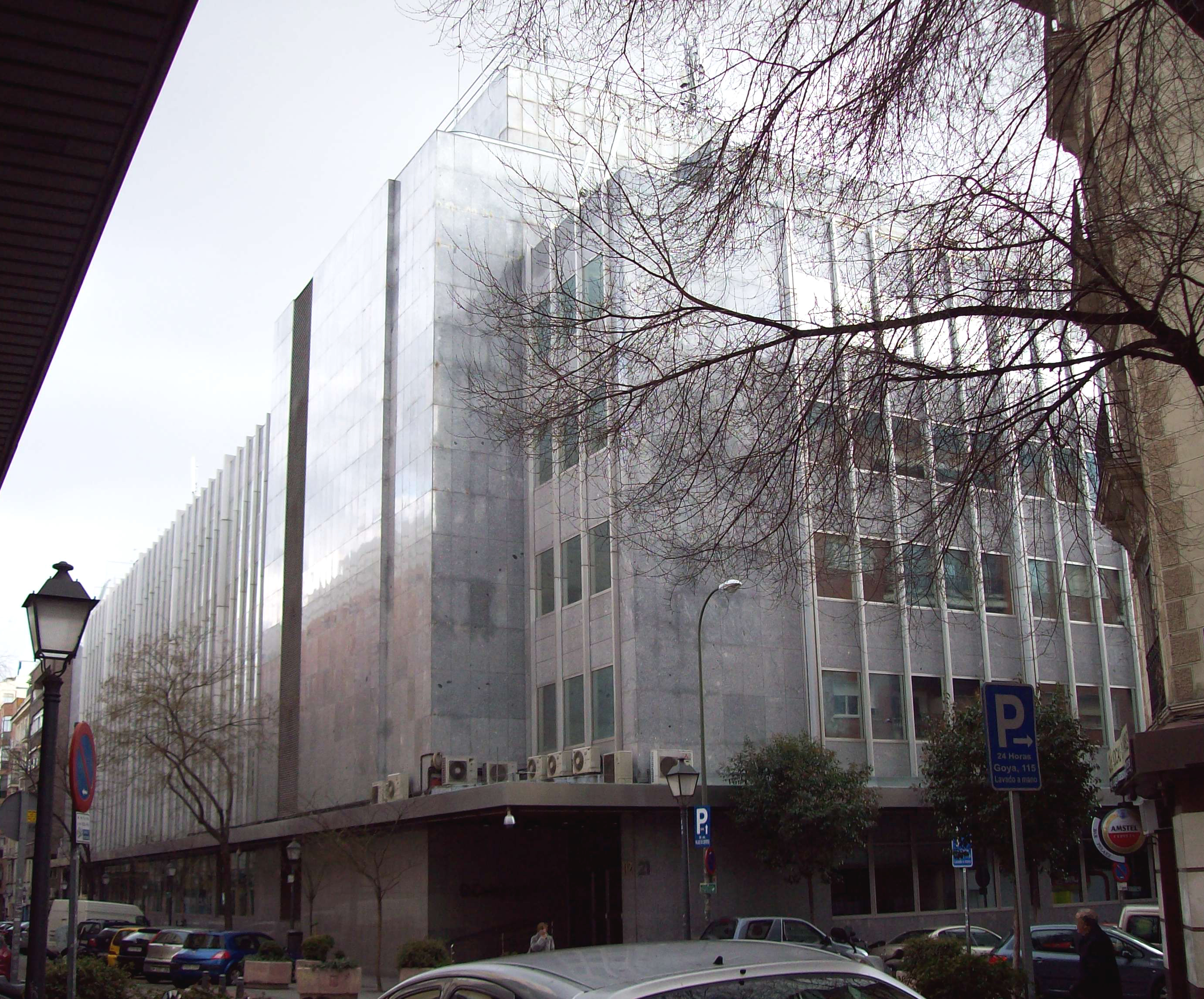 Head offices of El Corte Inglés group (including Hipercor), at 112 Calle de Hermosilla (street) in Madrid (Spain).